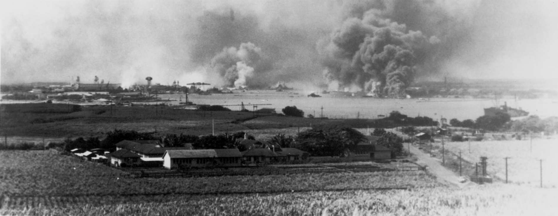 View of the burning ships in Pearl Harbor during the Japanese attack on 7 December 1941. Note the beached repair ship USS Vestal (AR-4) in the right foreground.